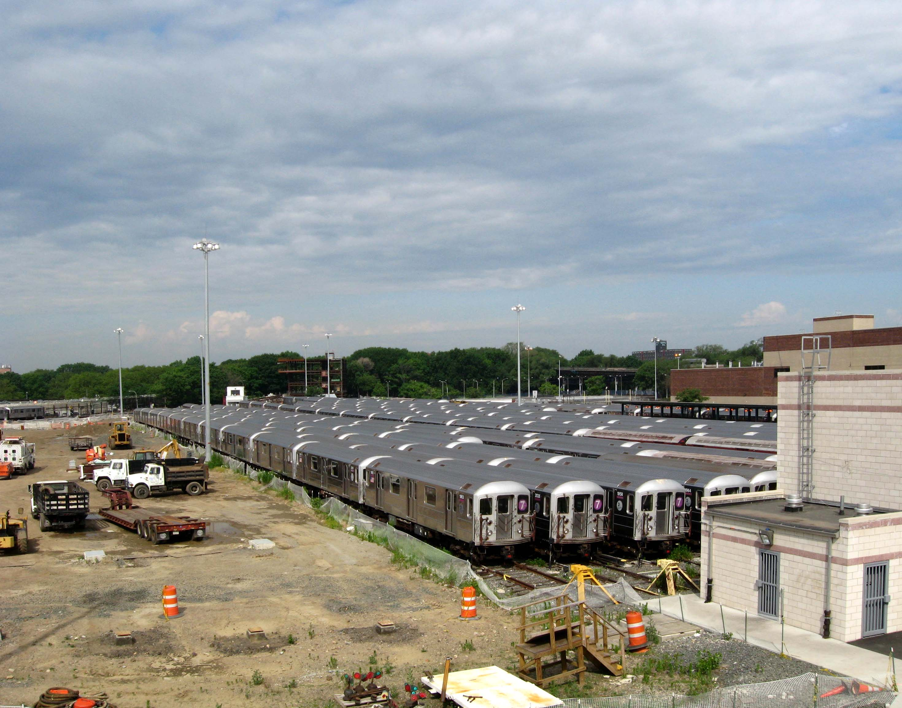 Looking west from ramp at Corona Yard in sunny morning.